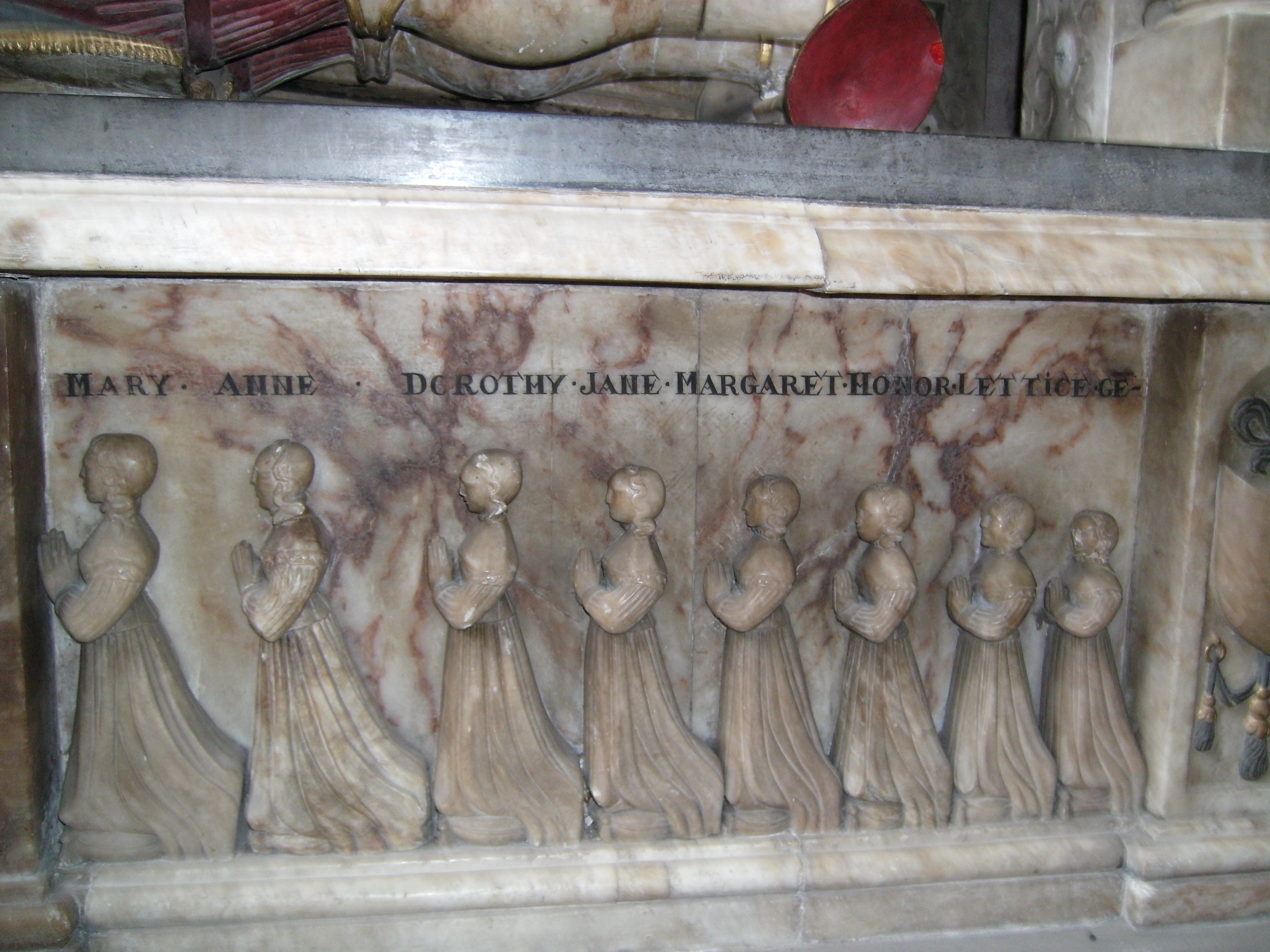 Daughters of Sir Edward Littleton (died 1610) and Margaret Devereux, St Michael's church Penkridge, a feature of a double tomb on east wall.